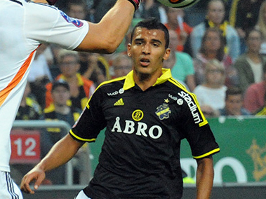 AIK Fotboll player